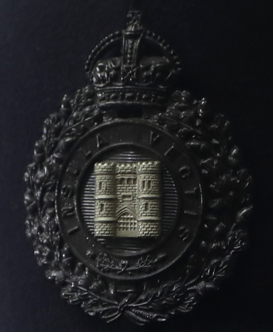 Photo of a Isle of Wight Constabulary helmet plate on a Custodian helmet